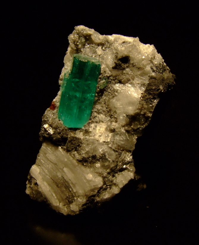 Very fine, gem quality emerald crystal from Muzo Mine, Muzo, Vasquez-Yacopí Mining District, Boyacá Department, Colombia